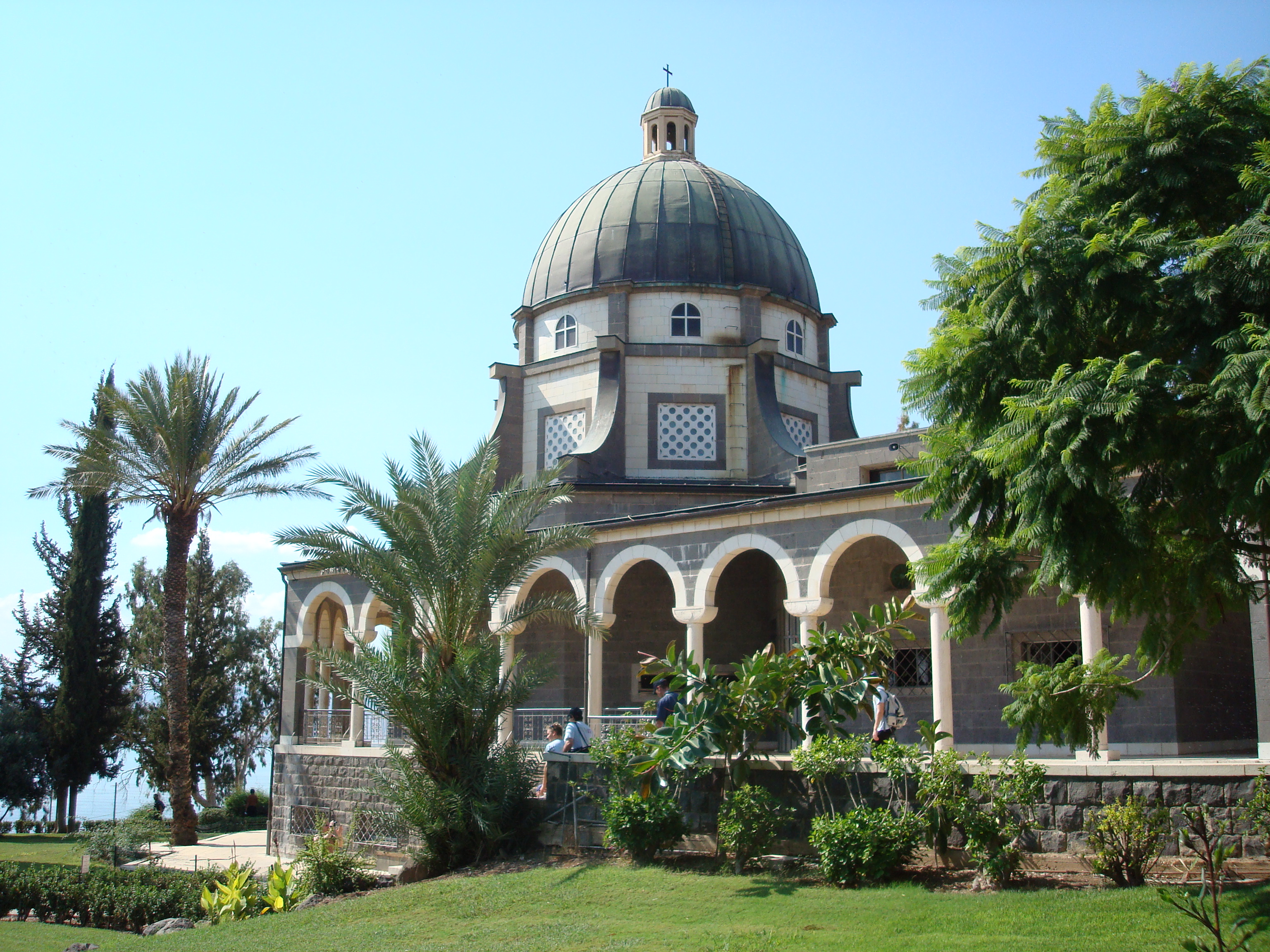 Mount of Beatitudes, Israel